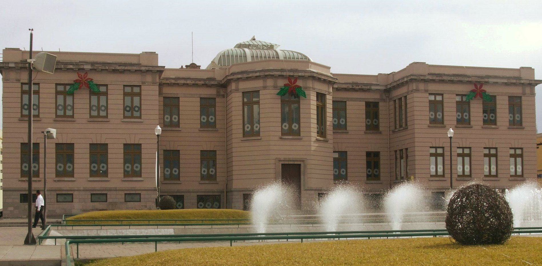 Rear of Casa Chihuahua Museum with fountains, ex-Federal Palace, Chihuahua (city), Chihuahua, Mexico